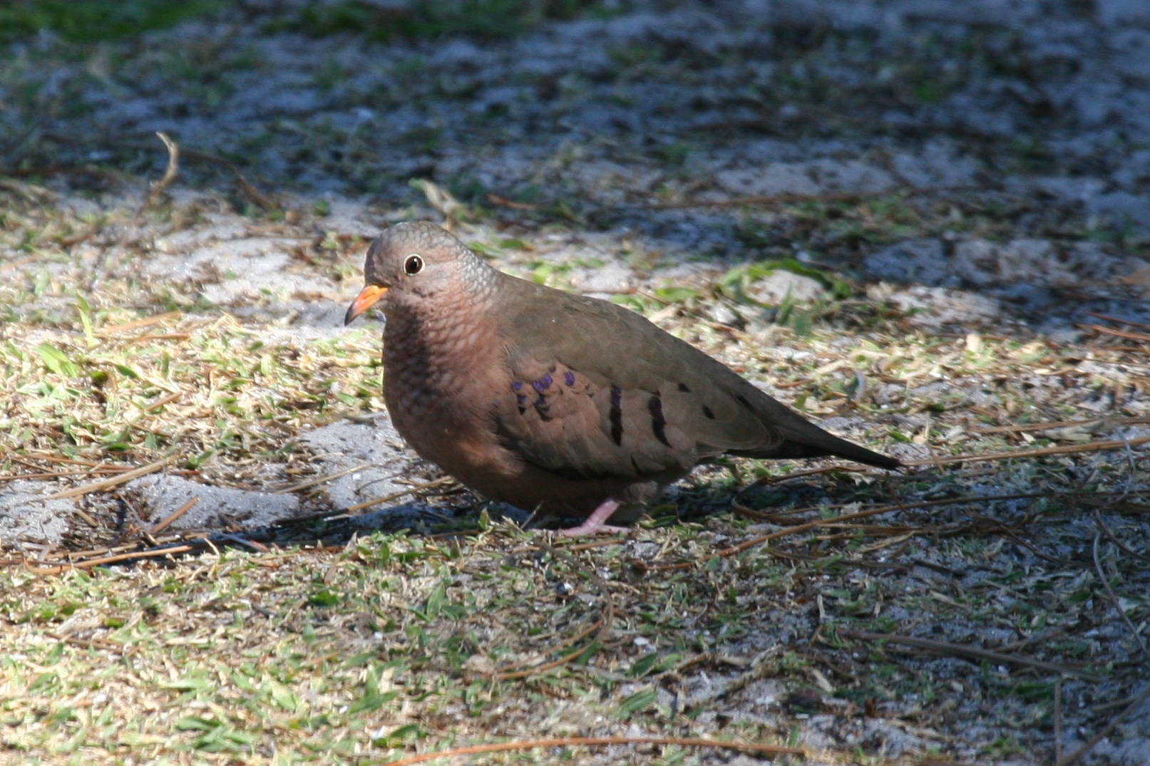 Common Ground Dove (Columbina passerina)